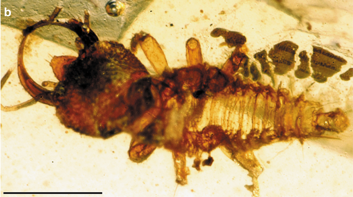 Diversity of the larvae of Myrmeleontiformia in mid-Cretaceous Burmese amber. B) Aphthartopsychops scutatus gen. et sp. nov., holotype. Scale bar: 0.5 mm